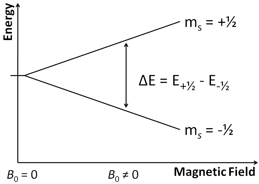 Personal creation; no rights claimed Diagram showing the energy level splitting due to the Zeeman effect of electron spin moments in an applied magnetic field with strength B0.